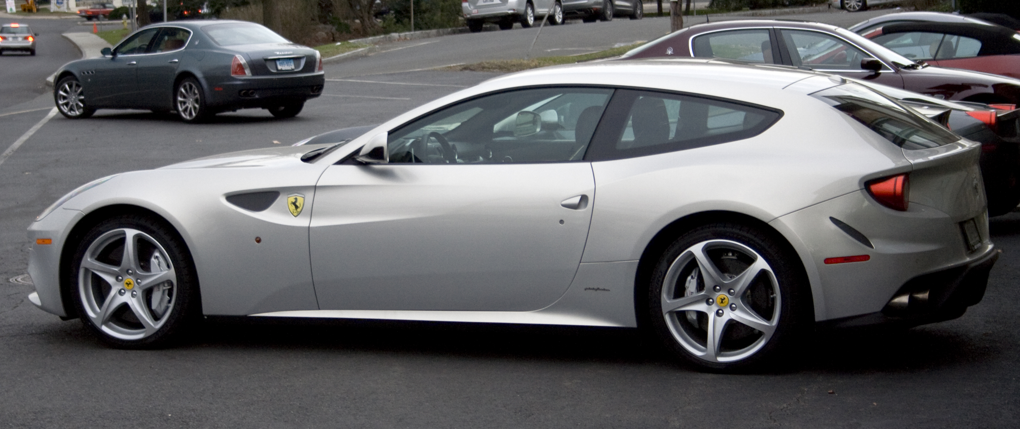 2012 Ferrari FF, in Greenwich, CT